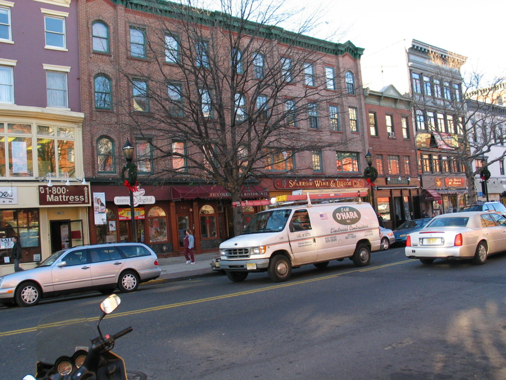 The main street in Hoboken, NJ, called Washington Street